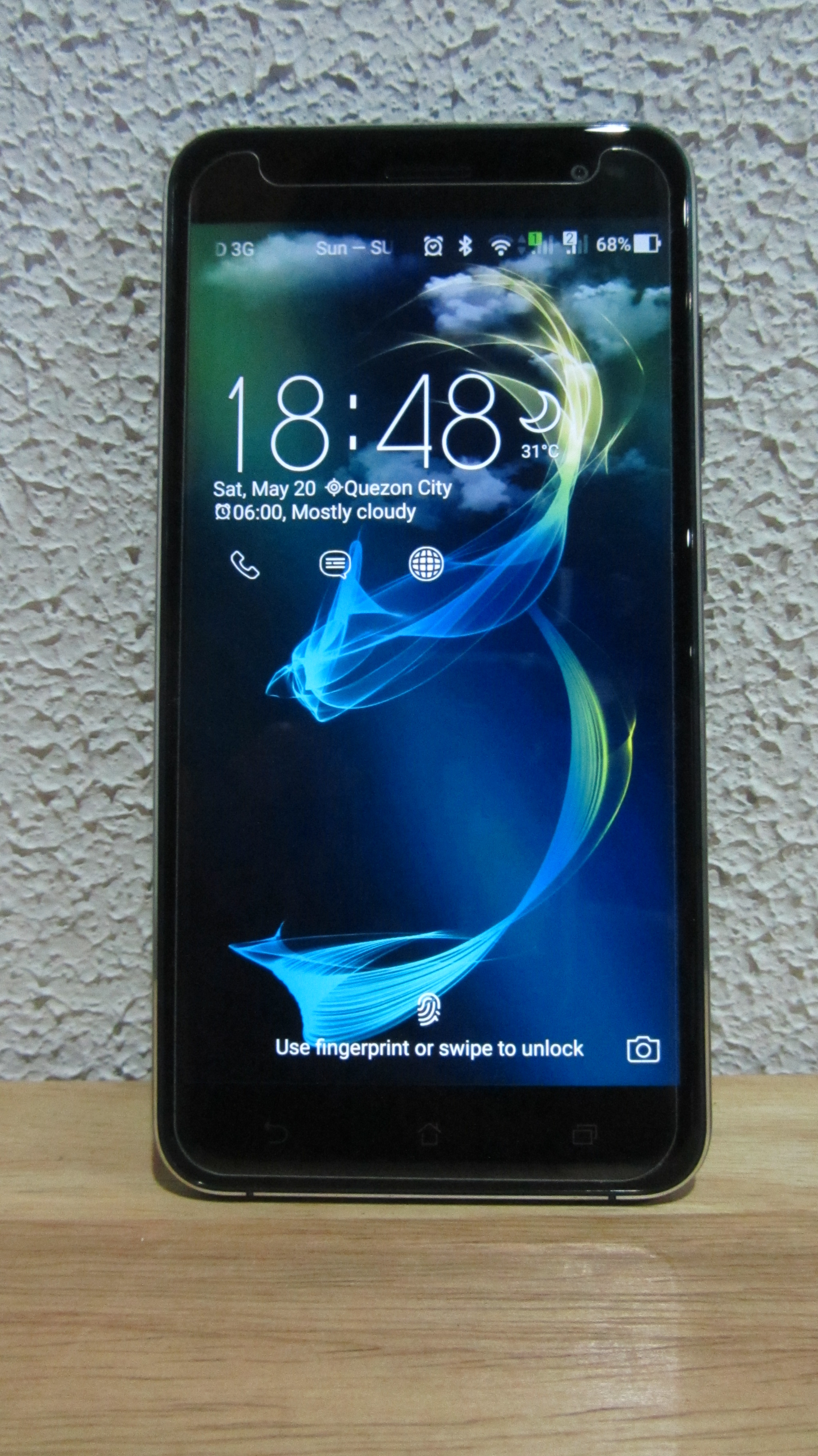 ASUS ZenFone 3 (ZE552KL).